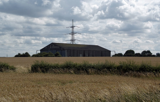 Old Hangar on North Killingholme Airfield Photo taken from Crook Mill Road.